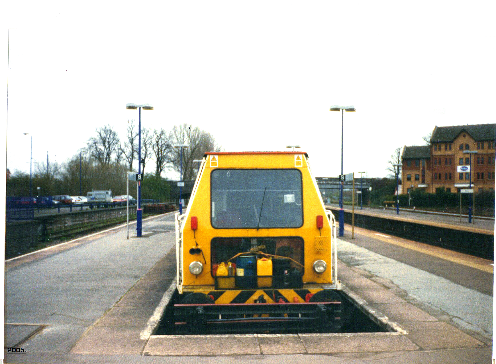 I took this picture of Balfour Beatty ballast/track tamper train at Banbury station my self and release it for use in the public domain.